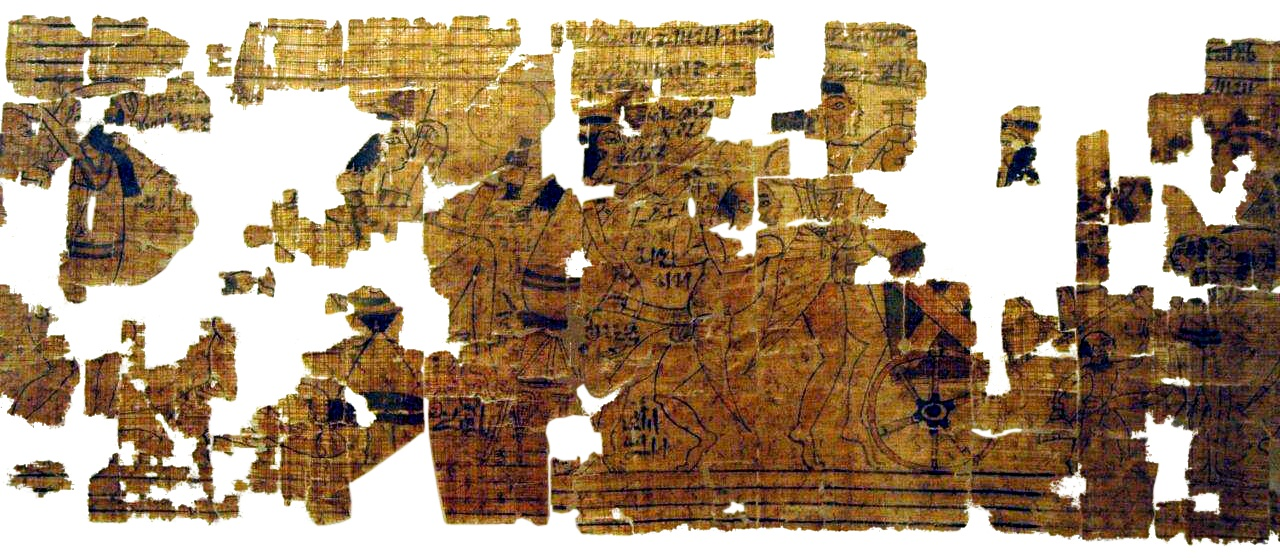 With white background